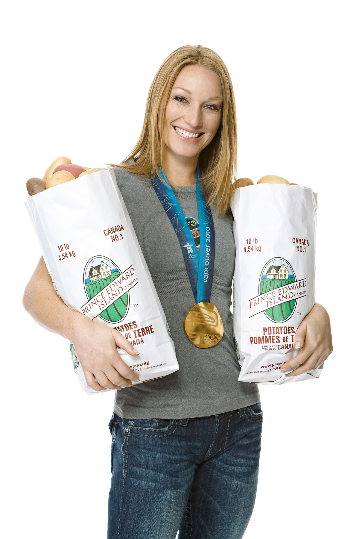 Heather Moyse, Olympic Gold Medalist, serves as Brand Ambassador for Prince Edward Island Potatoes